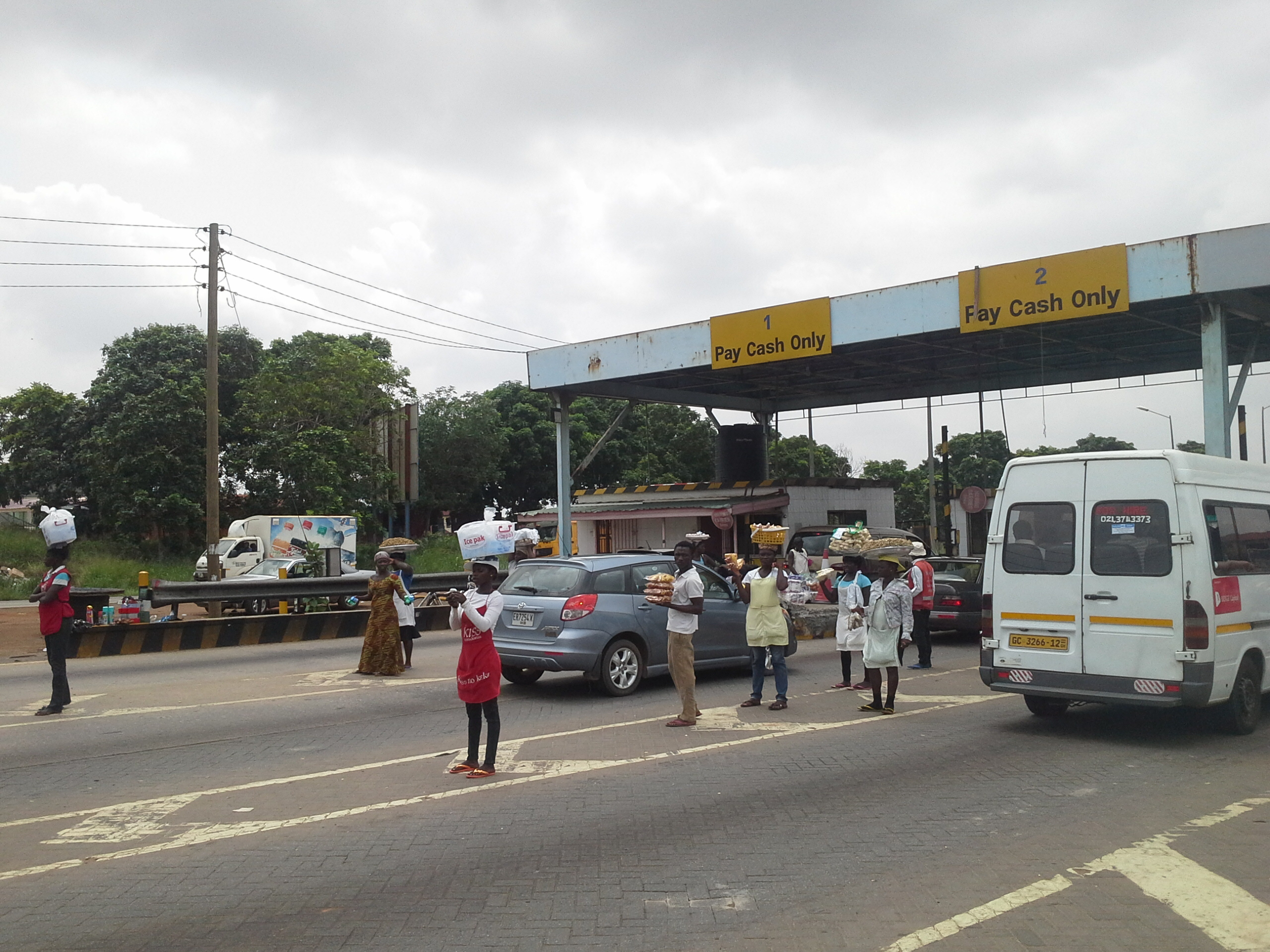 Toolbooth on Tema - Accra motorway